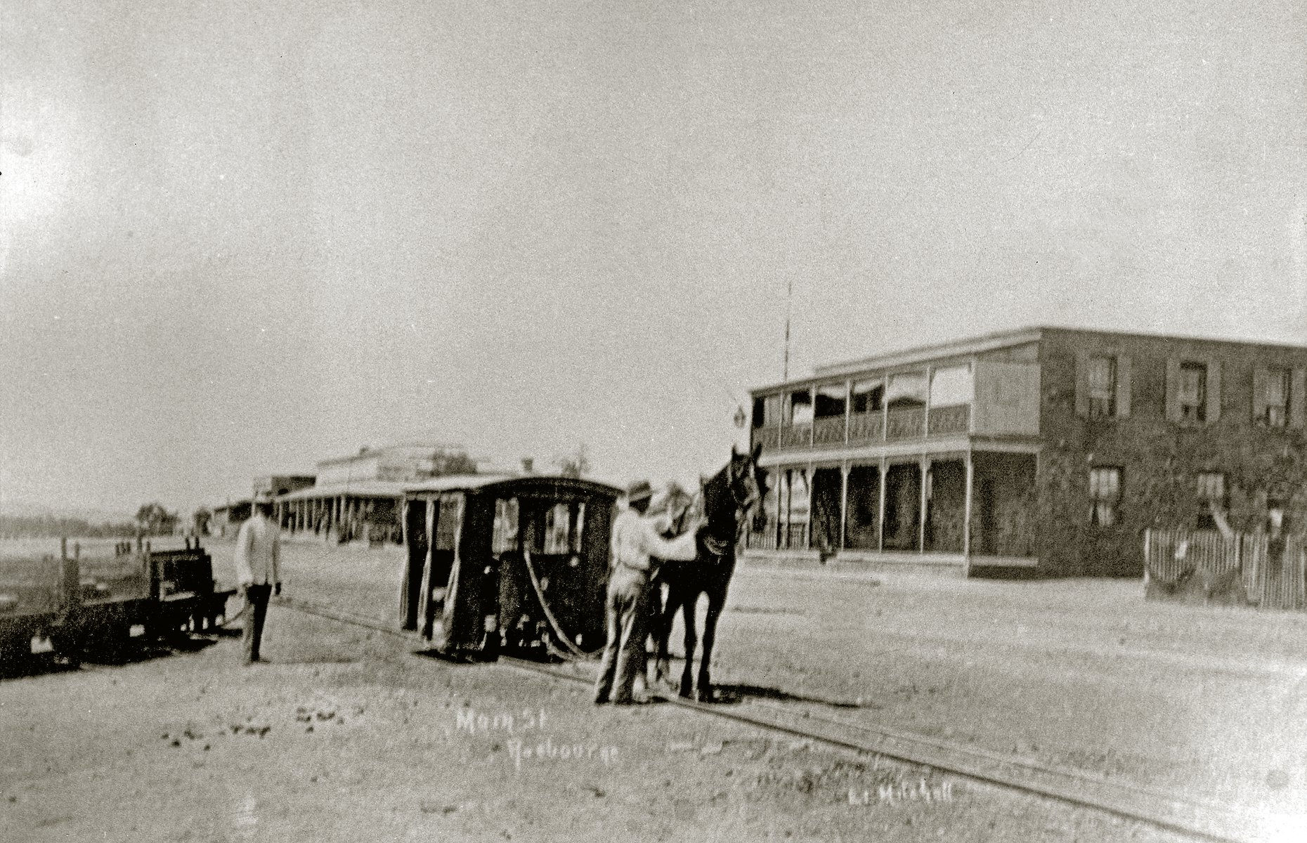 Cossack-Roebourne horse-hauled tramway in north-west Western Australia (8.5 miles long, 2 ft gauge)